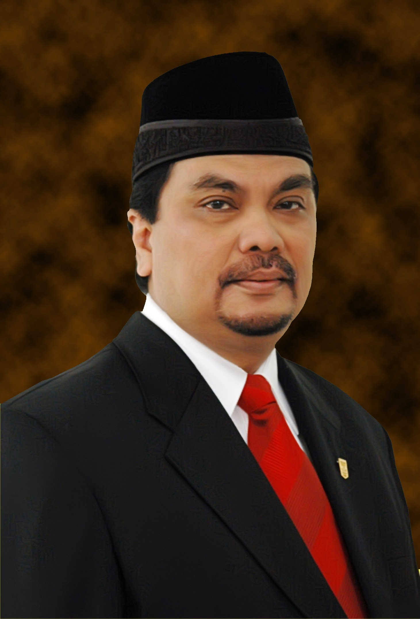 Leonardy Harmainy, politician and senator from Indonesia.